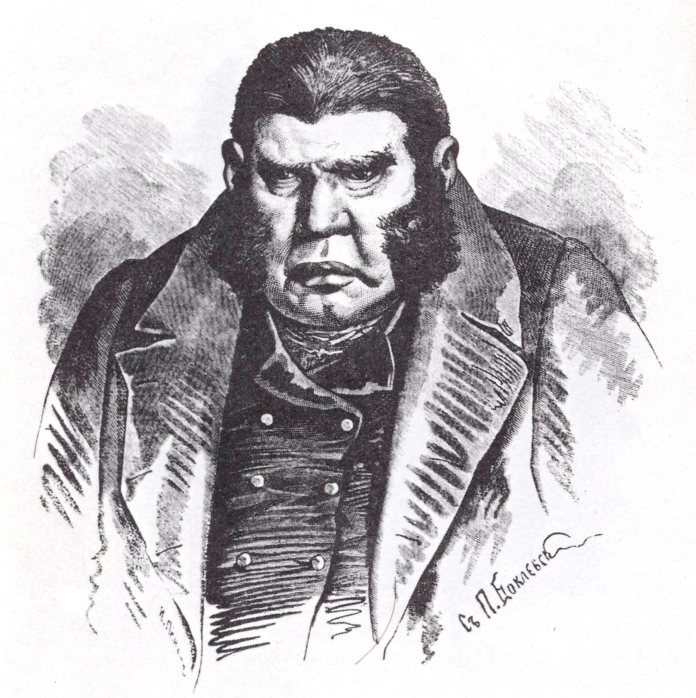 Sobakevich. Illustration for Nikolai Gogol's Dead Souls